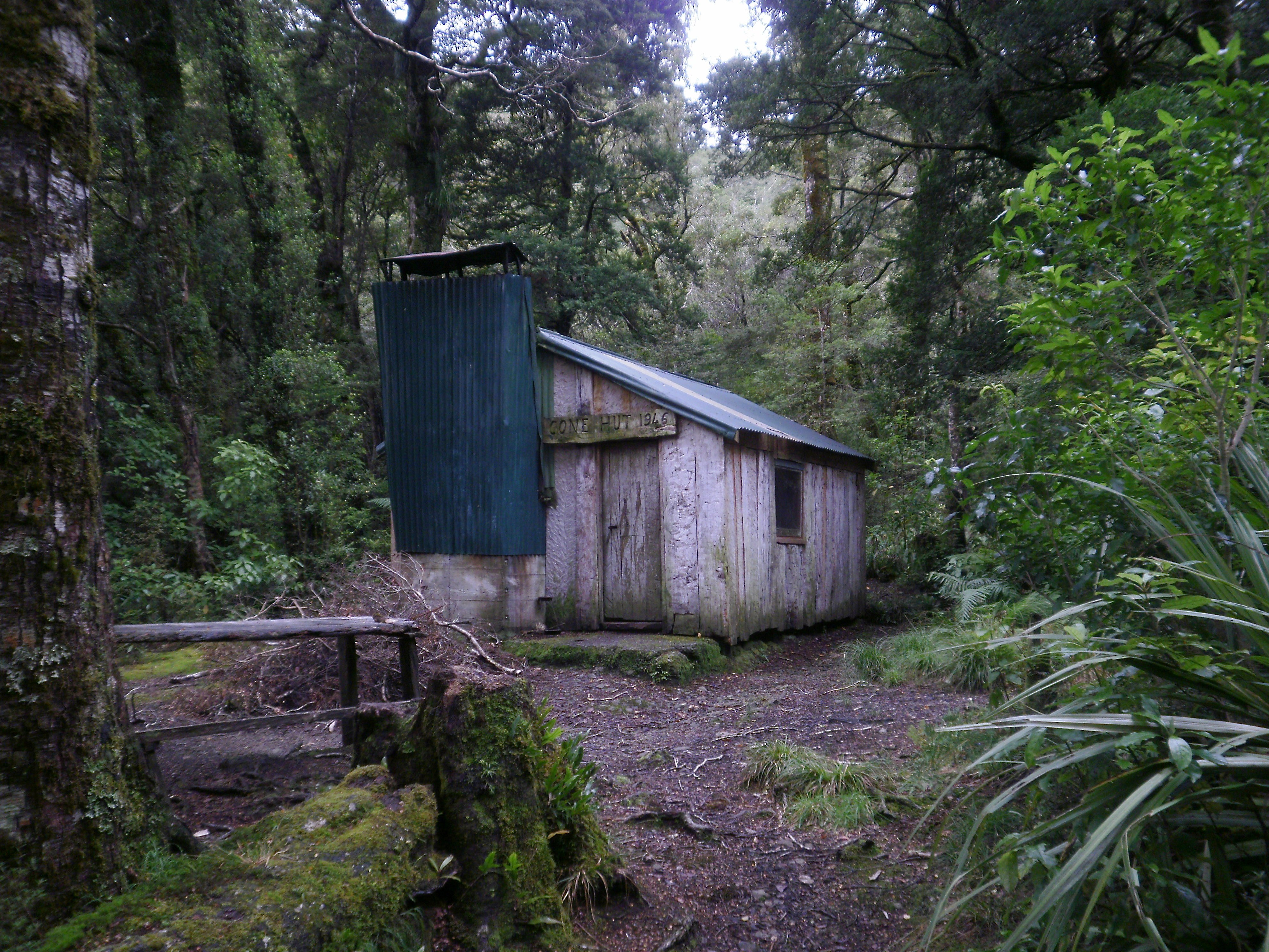 Historic Cone Hut, Tararua Forest Park, Wairarapa, New Zealand. Built in 1946, its the second oldest hut in the Tararuas.